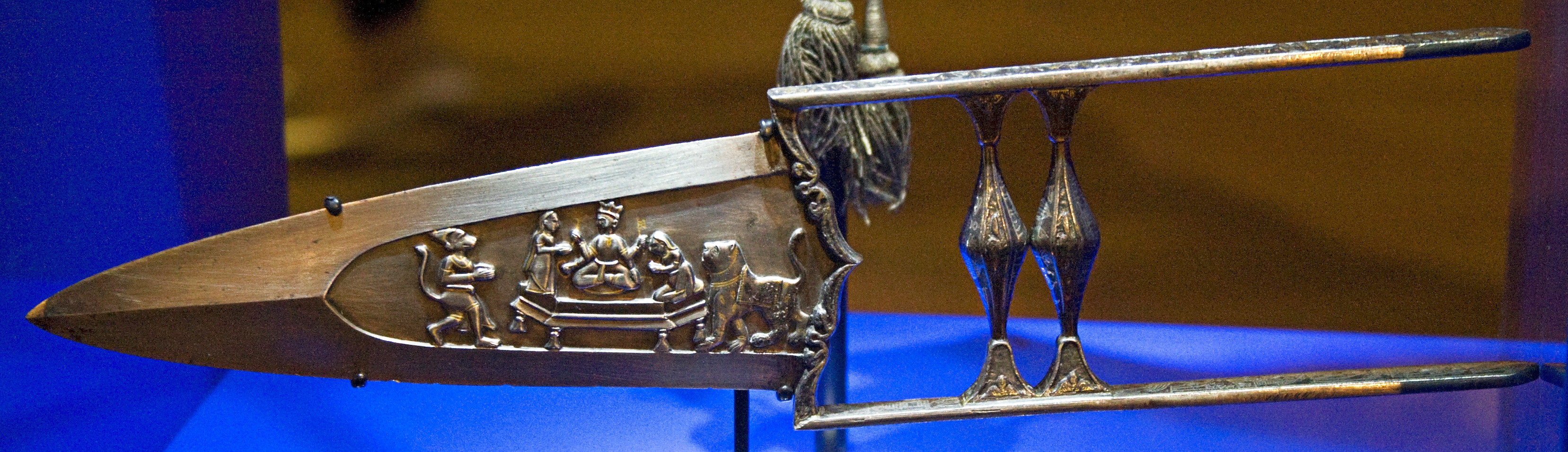 Katar (dagger) in the royal armories in the Tower of London. Tag on the exhibit reads: "Daggar (Katar). By gripping the pair of crossbars this uniquely Indian form of dagger becomes an extension of the user's arm - and ideal for thrusting attacks. The blade is decorated with Hindu religious scenes on one side the god Krishna playing a flute and on the other the god Vishnu. Indian, Indore, 18th century. Presented by the East India Company, 1851. xxvid.62"